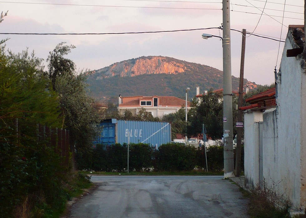 Pikermi Hill